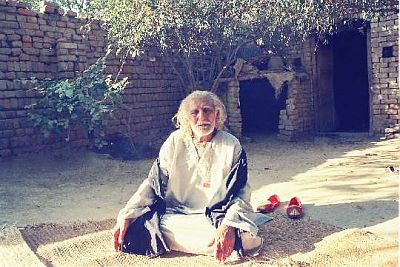 pathanay khan siting on rug